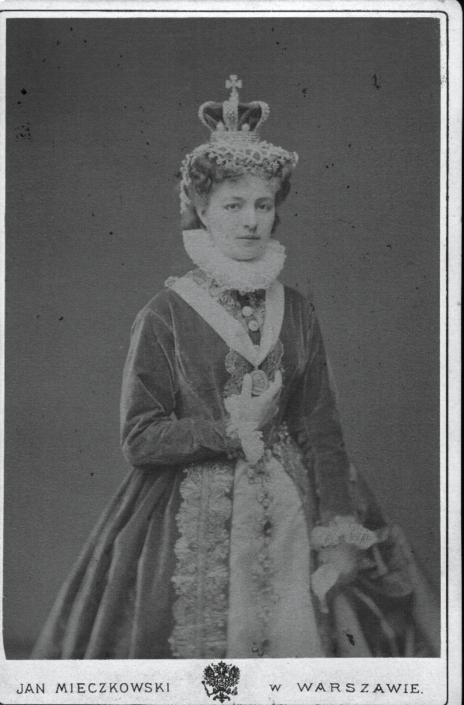 Helena Modrzejewska as Mary, Queen of Scots in Teatr Wielki, Warsaw